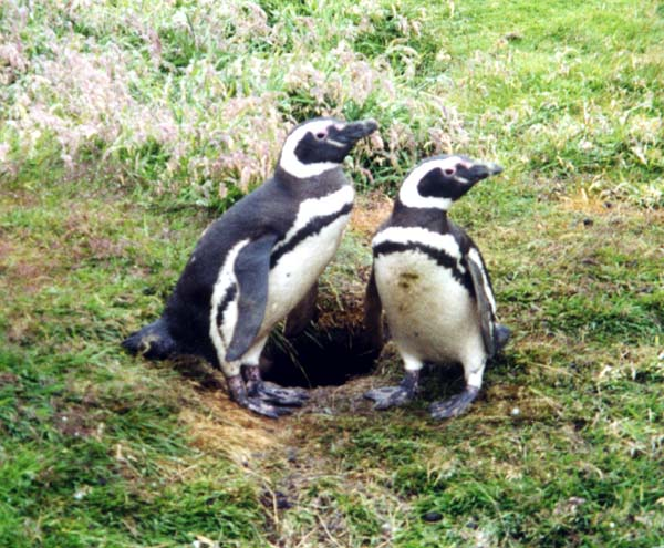 Photo of Spheniscus magellanicus (Magellanic penguin) pair next to burrow on Carcass Island, Falkland Islands